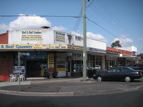 Shopping strip in Dell St, Woodpark NSW